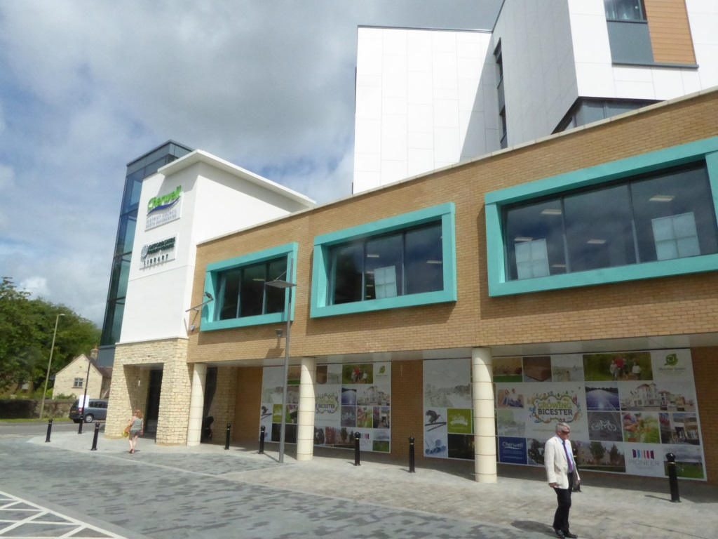 Visited by a member of the Libraries Taskforce team on the day of its official opening. This brand new library is 3 x larger than its predecessor, and shares the building with local council offices, a hotel and, there are plans for future retail units on the ground floor. It faces the main pedestrian zone in the centre of town and is next to a large carpark. Photo credit: Julia Chandler/Libraries Taskforce